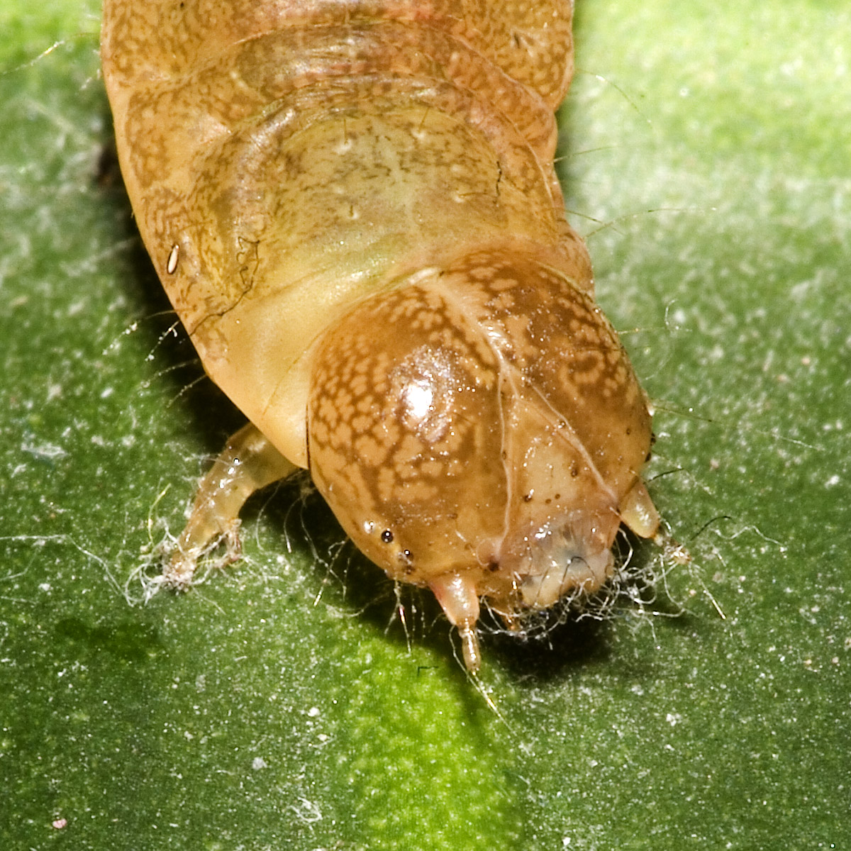 Angle Shades, Phlogophora meticulosa (Linnaeus, 1758); Many thanks to Thomas Fähnrich from for determination!